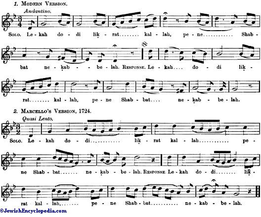 Score of the Lekha Dodi song (prayer for the welcome of the Shabbat).